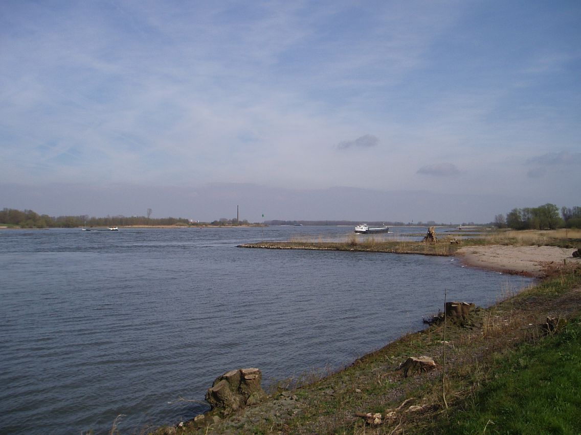 Waal River near Loevestein Castle